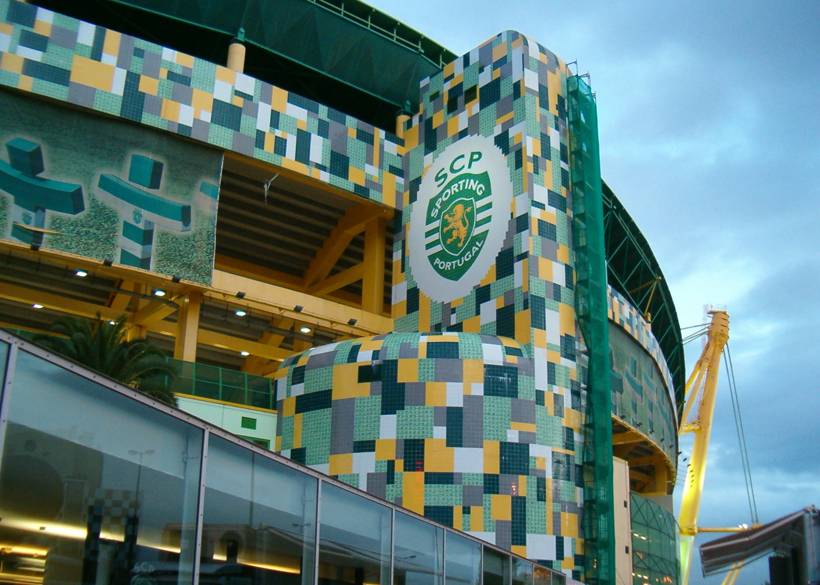 Alvalade XXI Stadium, Exterior with Logo of Sporting Club of Portugal, day of the game Sporting VC Shakhtar